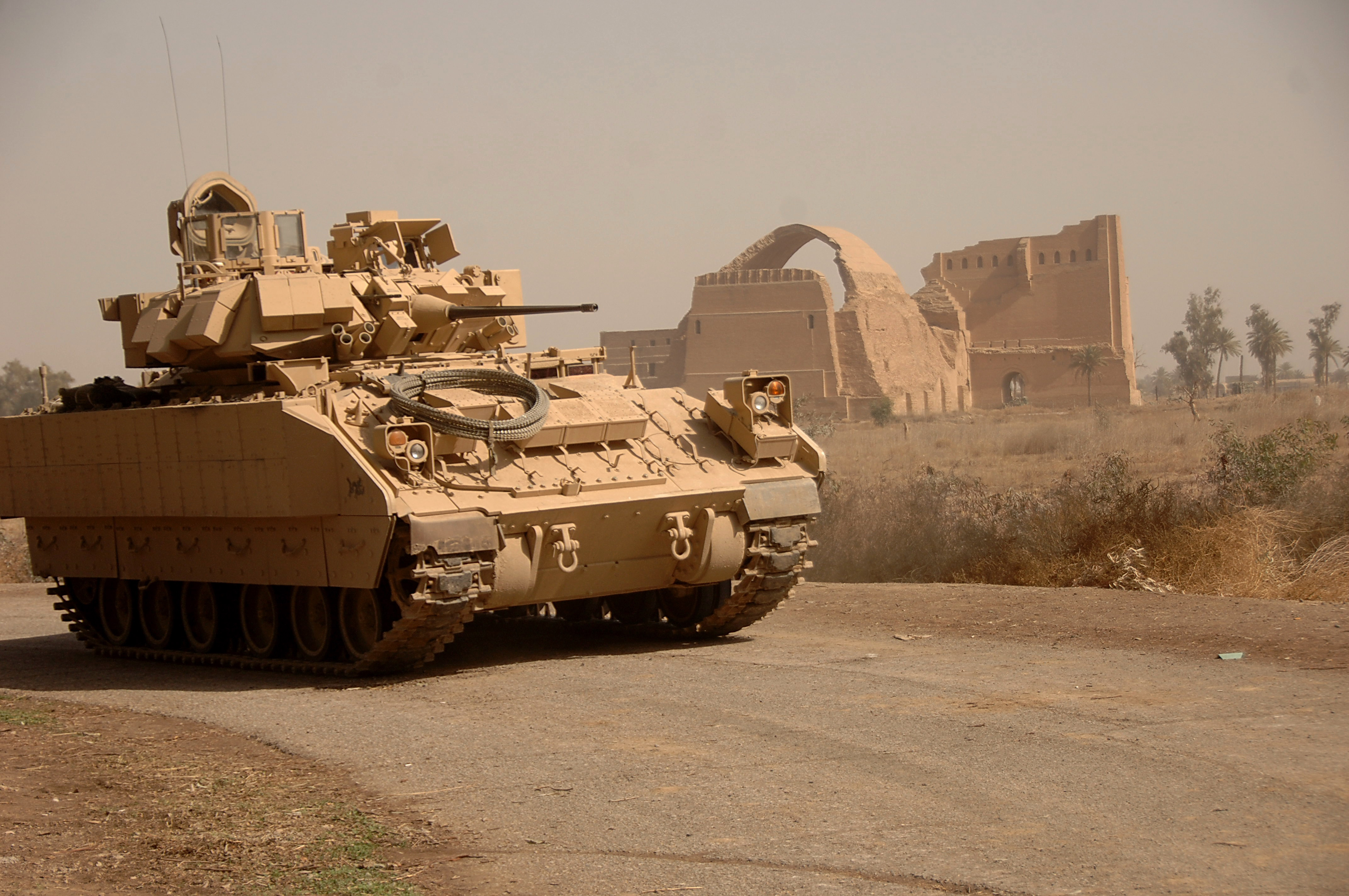 A Bradley Fighting Vehicle provides security as U.S. Army Soldiers from Alpha Company, 1st Battalion, 15th Infantry Regiment, 3rd Heavy Brigade Combat Team, 3rd Infantry Division conduct a joint clearing operation with local Abna'a Al Iraq (Sons of Iraq) through small villages south of Salman Pak, Iraq recently occupied by insurgents.